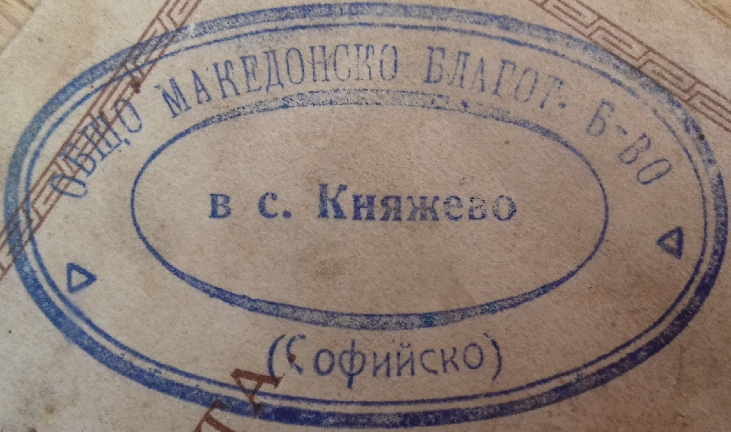 Knyazhevo Brotherhood Seal